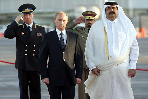 DOHA. At an official welcome ceremony with the Emir of Qatar, Sheikh Hamad bin Khalifa al-Thani.